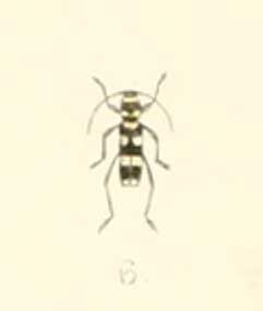 « Clytanthus t-nigrum » = Chlorophorus t-nigrum